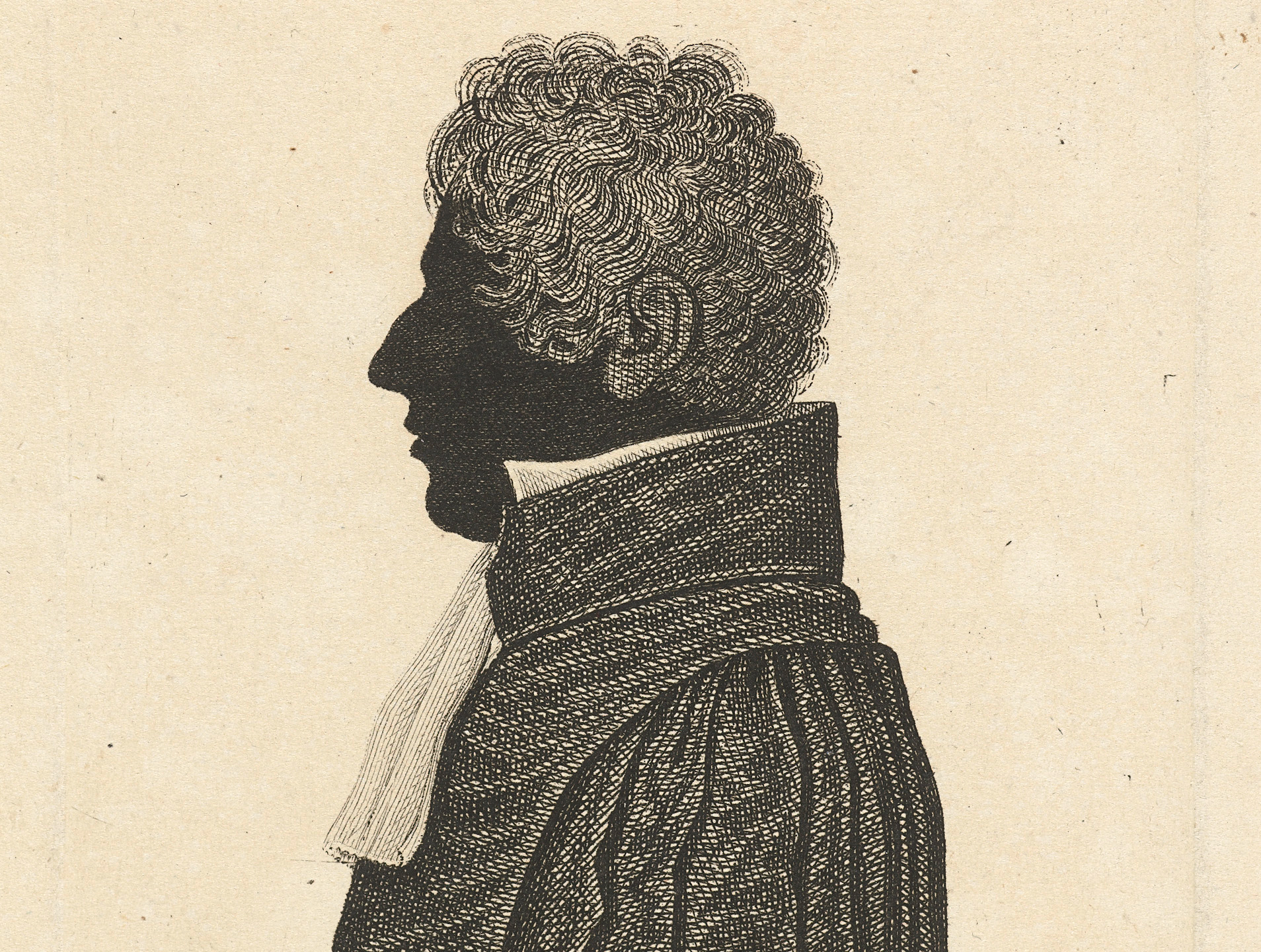 Profile of Adriaan Gilles Camper, drawn by Wessel Lubbers (1755-1834), etched by Carl Christiaan Fuchs (1792-1855), published by Jan Ommkens (1779-1844) in 1814.